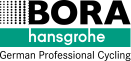 Logo Bora-hansgrohe